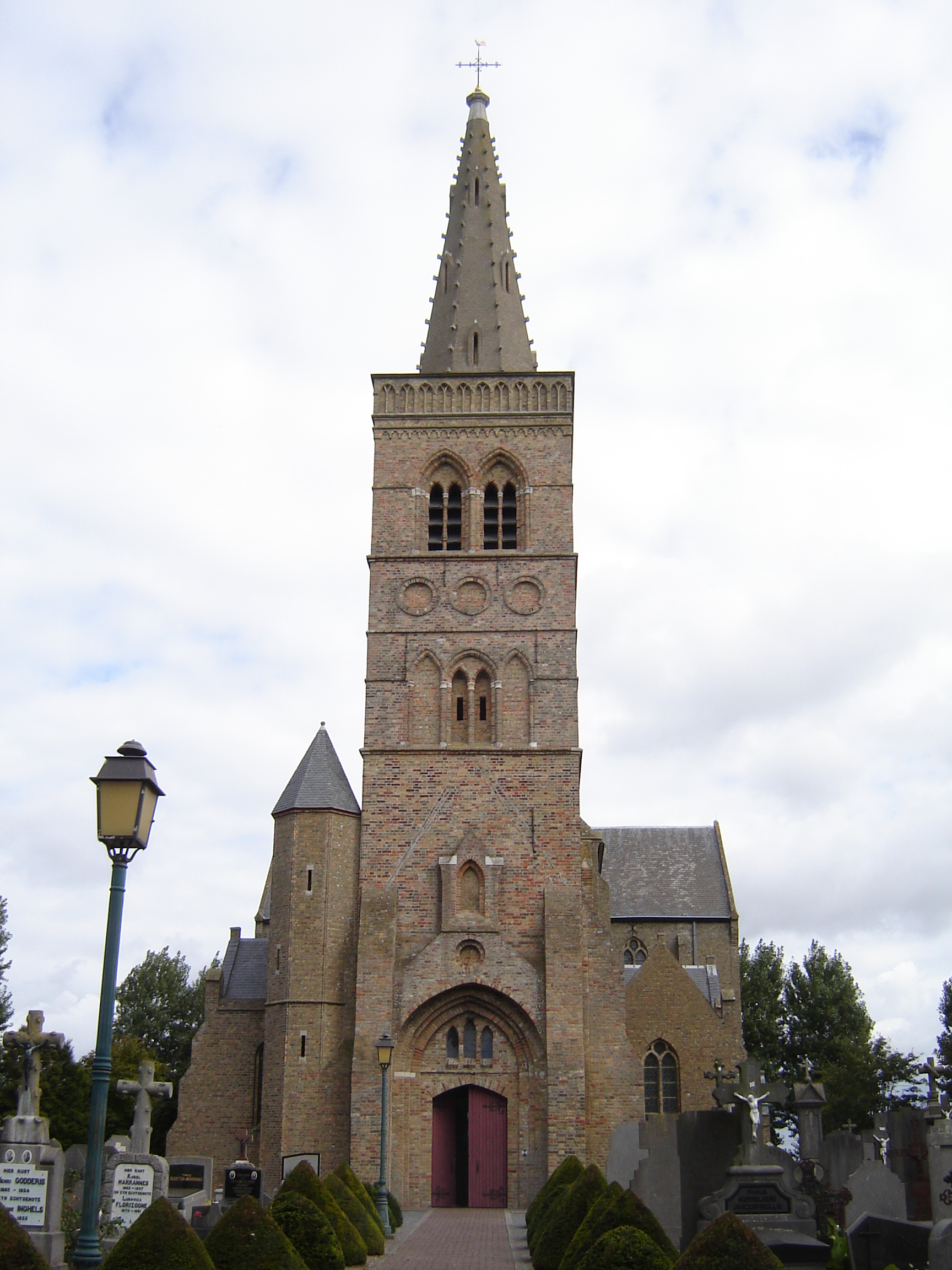 Church of Saint Willibrord in Wulpen. Wulpen, Koksijde, West Flanders, Belgium